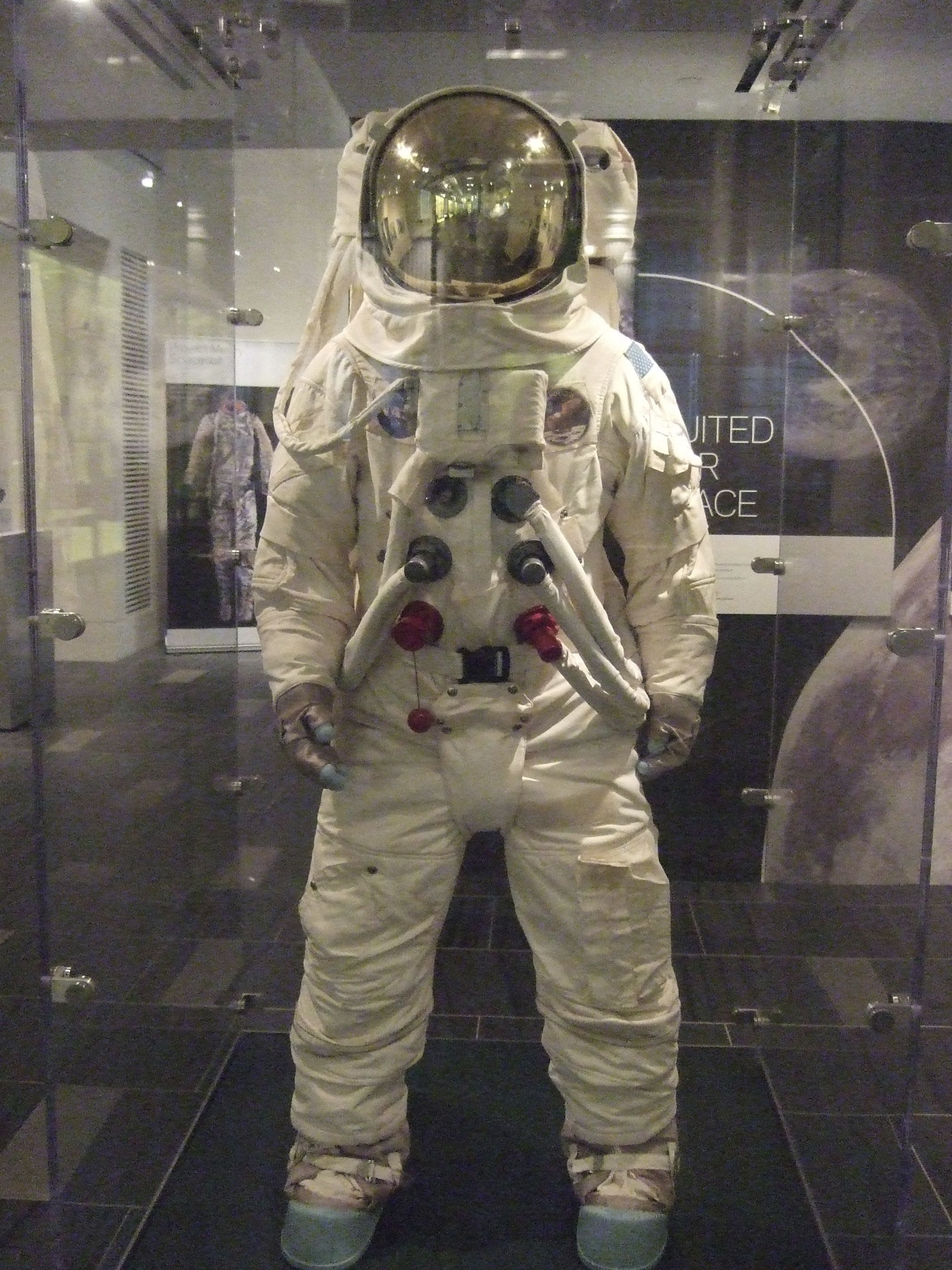 Replica Apollo spacesuit front shown at 2014 "Suited for Space" Exhibit at the Chemical Heritage Foundation